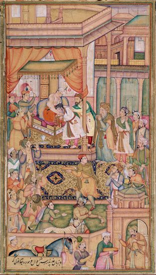 Bairam Khan submits to Akbar after his defeat